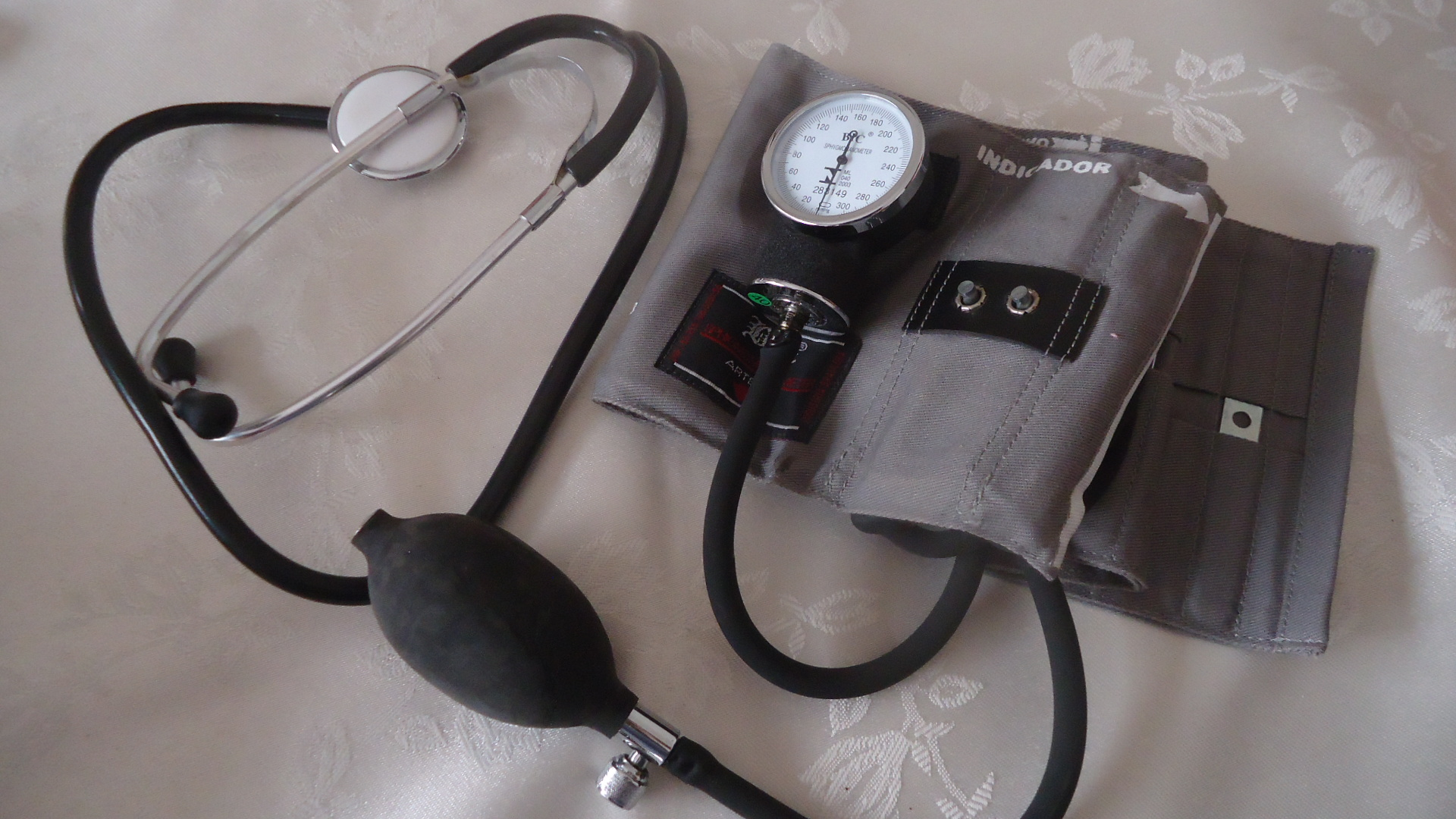 Sphygmomanometer and stethoscope.